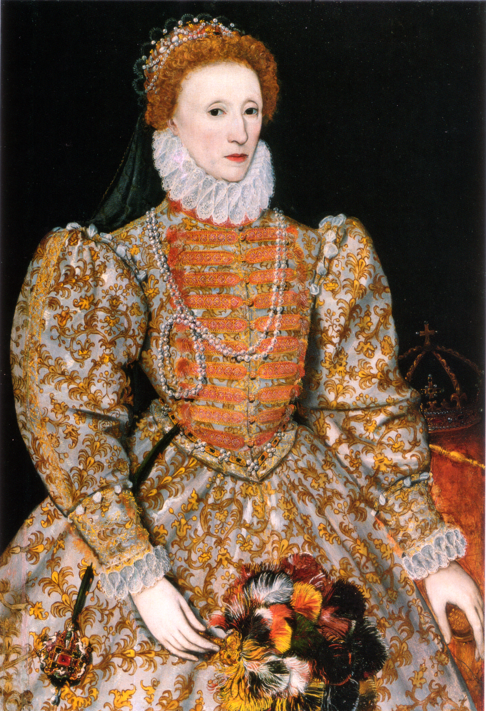 The "Darnley Portrait" of Elizabeth I of England. It was named after a previous owner. Probably painted from life, this portrait is the source of the face pattern called "The Mask of Youth" which would be used for authorized portraits of Elizabeth for decades to come. Recent research has shown the colours have faded. The oranges and browns would have been crimson red in Elizabeth's time.